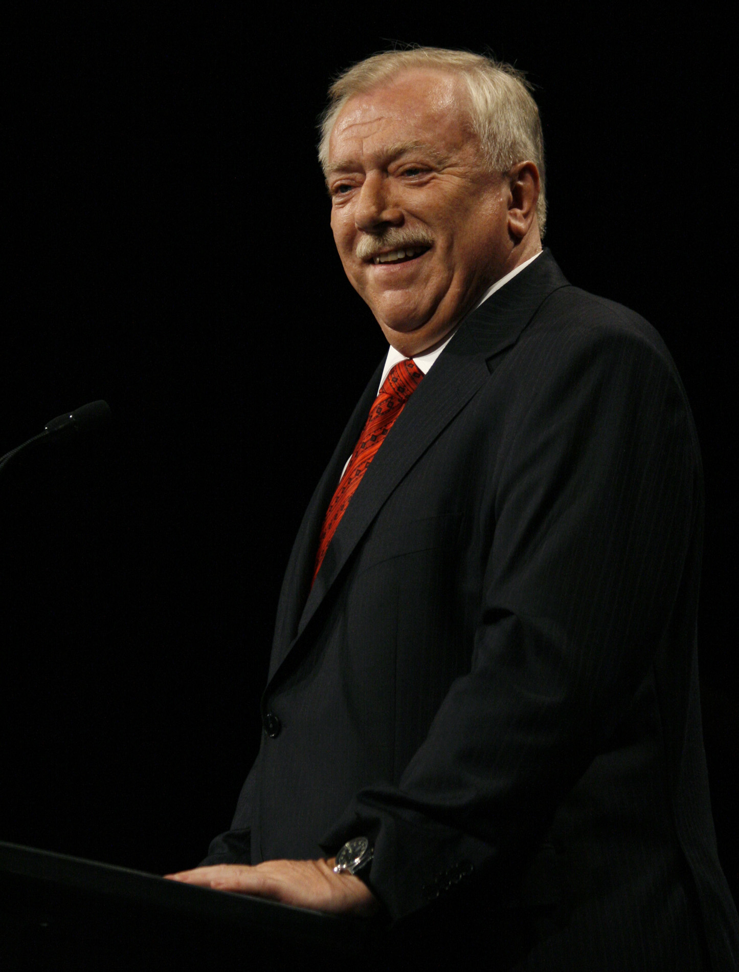 Michael Häupl, mayor of Vienna, at the kick-off event of the Social Democratic Party of Austria for the campaign for the legislative election 2008.